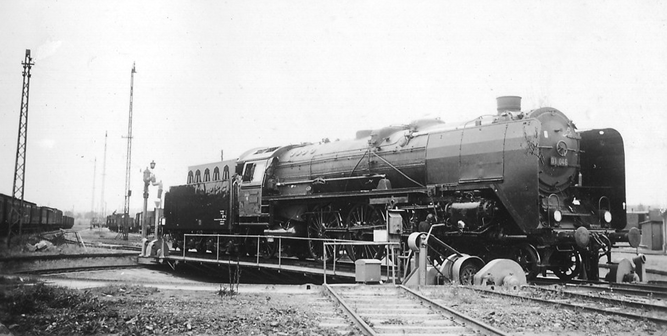 DRG steam locomotive 01 046 at main railway workshop RAW Frankfurt-Nied.